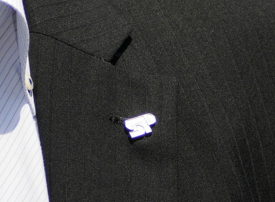 警視庁警護員記章